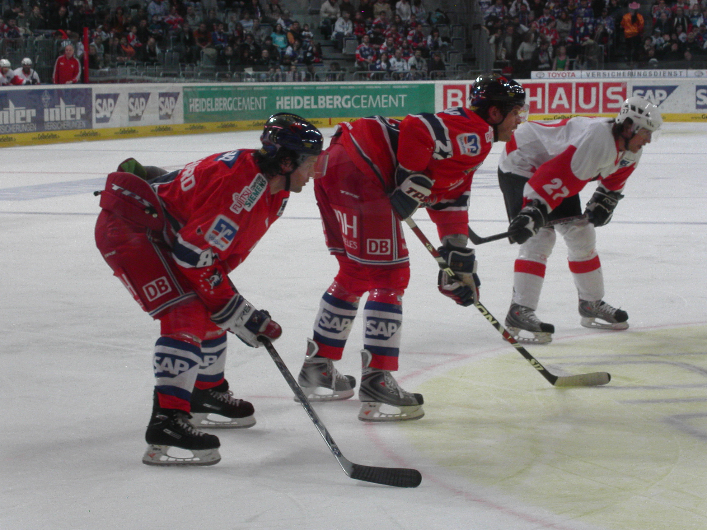 Players from the Adler Mannheim (Mannheim Eagles) : Francois Bouchard (left), Colin Forbes, and from the Duisburger Füchse (Duisburg Foxes): Justin Cox (right)